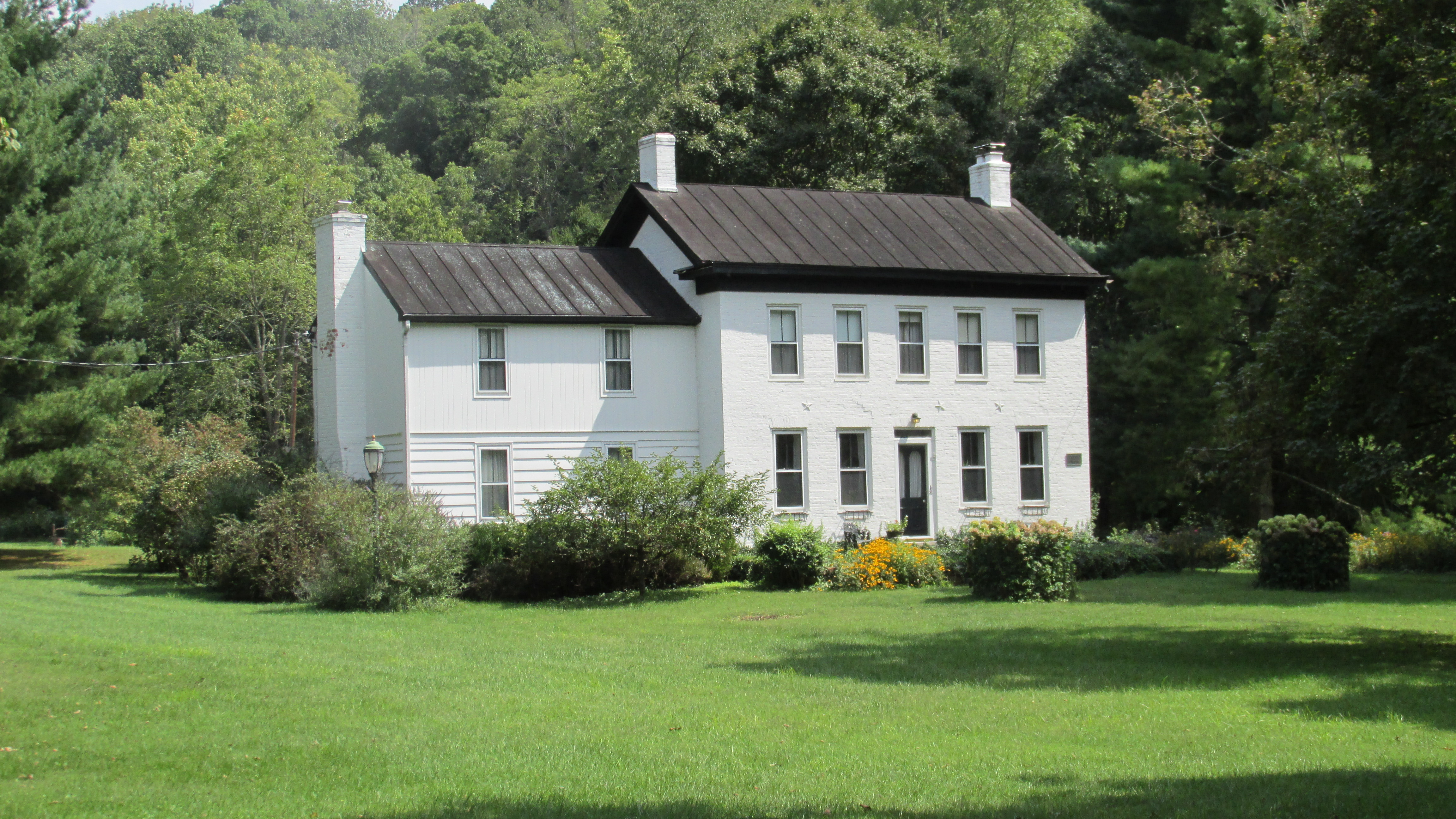 The Gaskin-Malany House in Clermont County, Ohio.